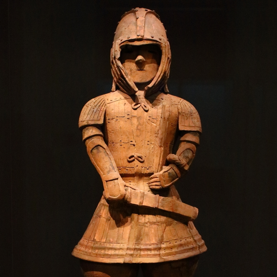 Haniwa - Warrior in Keiko Armor